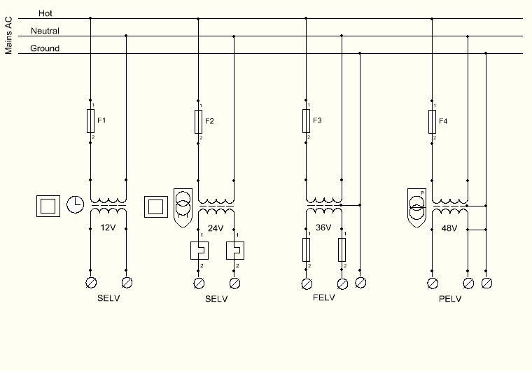 Low voltage installations for low voltage devices. Where it's used? For example, in bathrooms or showers. Let's see them: SELV or safety extra-low voltage - 12V with timer or 24V with overheating protection. In real life you also can see 12V transformers with overload protection in low-voltage halogen lamps. FELV or functional extra-low voltage - 36V with overload protection and ground wire. During Soviet times it was widely used in filling stations, in Europe it is used in industrial objects with hazards. PELV or protected extra-low voltage - voltage up to 48V, where one pole is grounded. Overload protection is used only near loads or other line longer than 3 meters. All of them should have different sockets, which will allow to use devices only with related low voltage system.